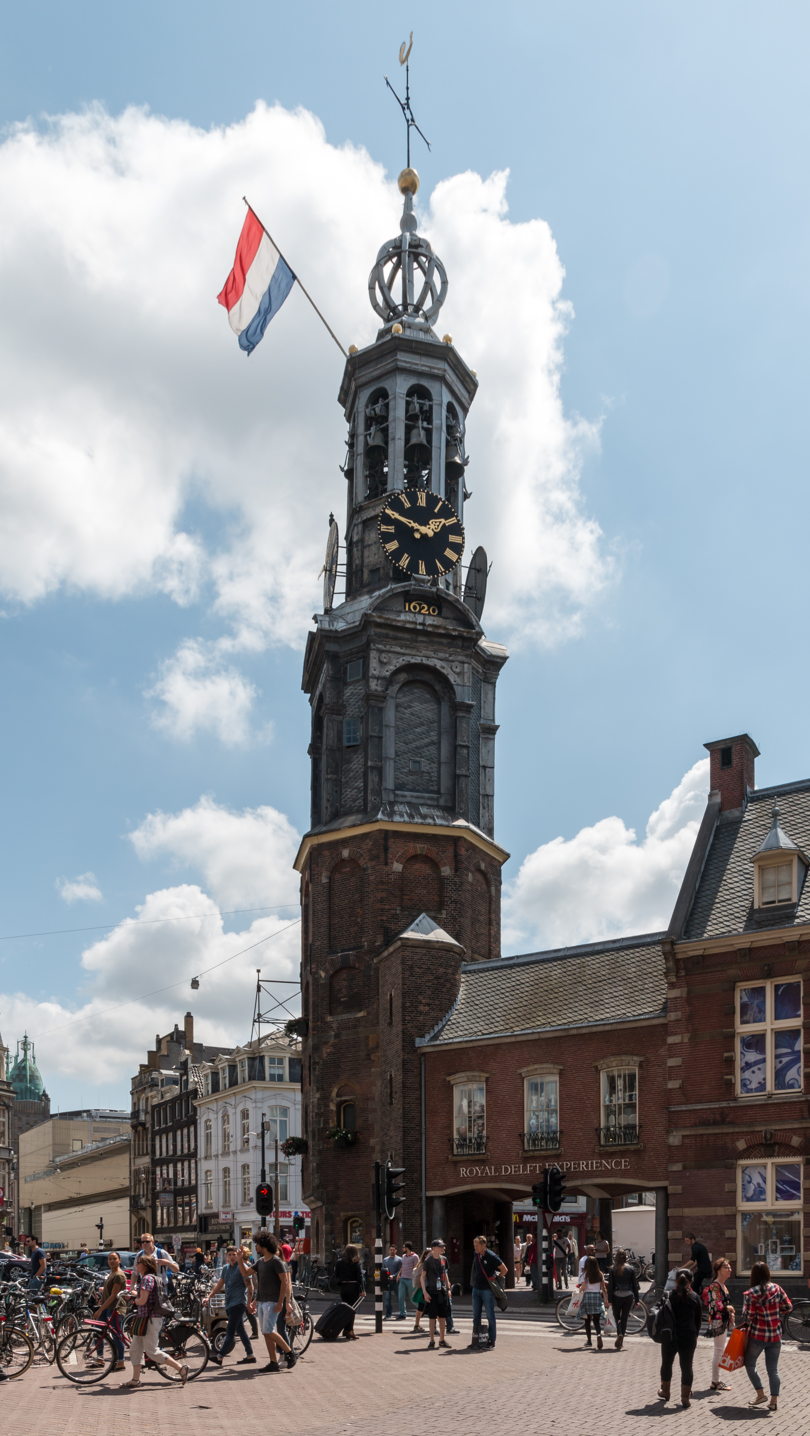 Munttoren in Amsterdam, Netherlands